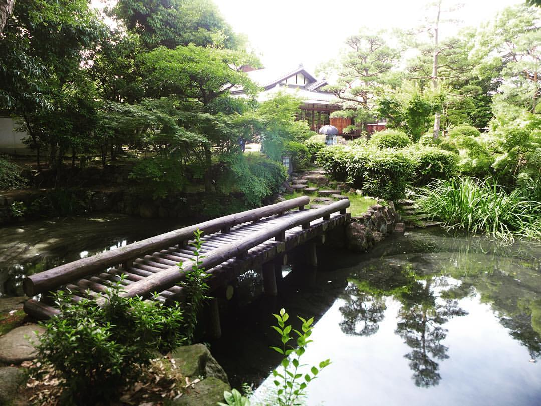 Japanese garden, KounoikeShinden Kaisyo in Higashiosaka city